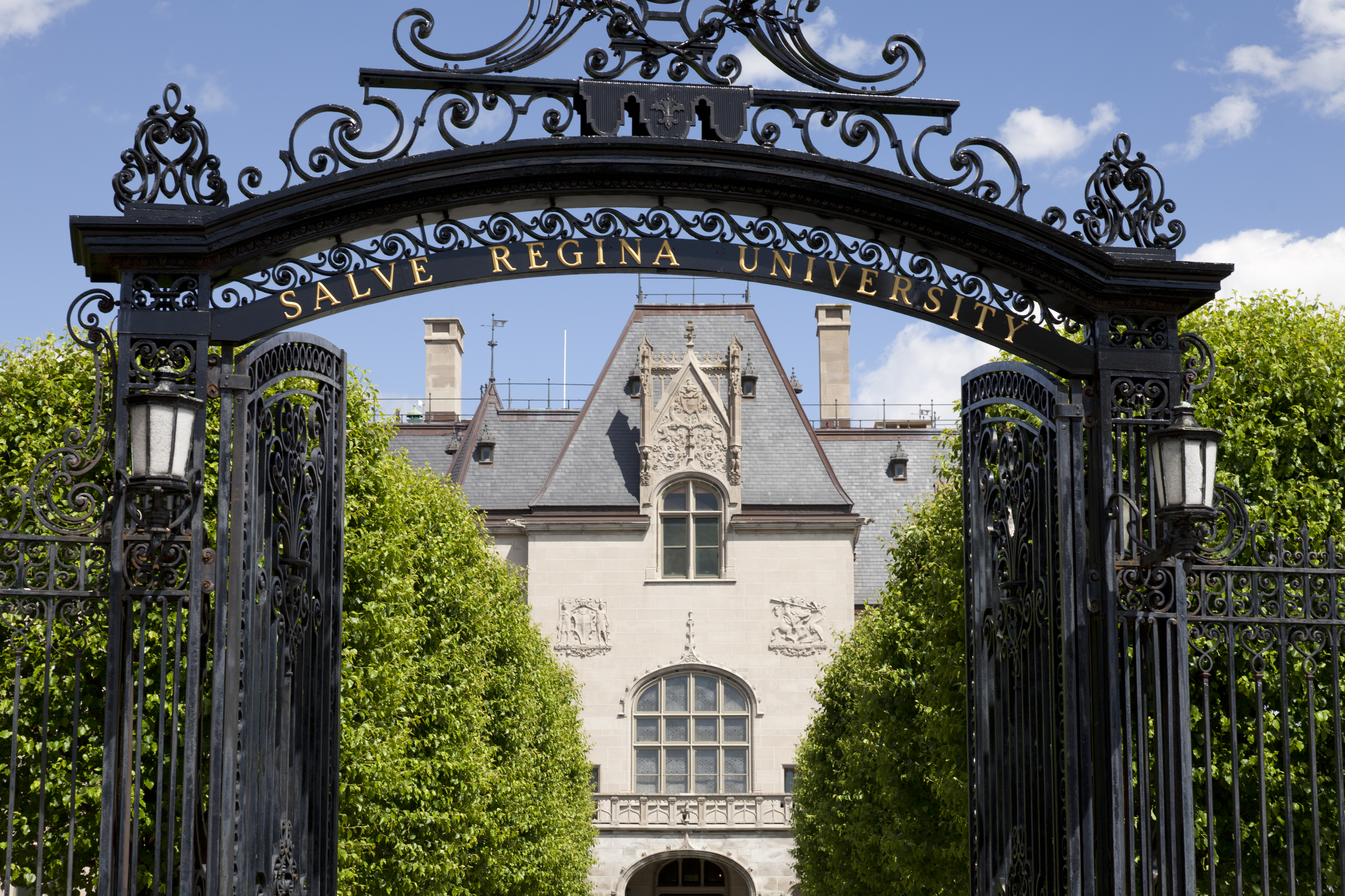 Ochre Court, Salve's administrative building